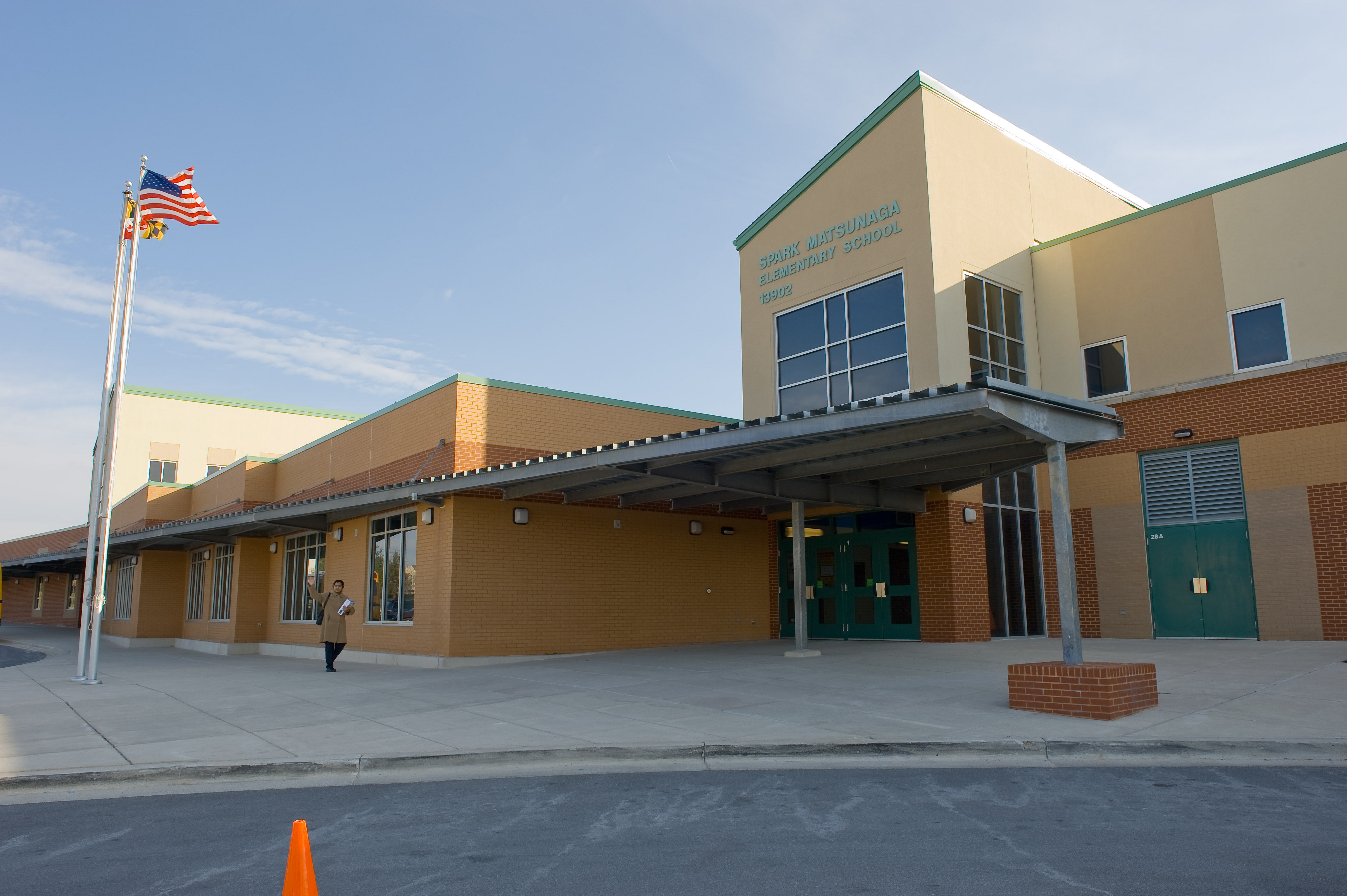 The Spark Matsunaga Elementary School in Germantown, Maryland, U.S., opened in 2001